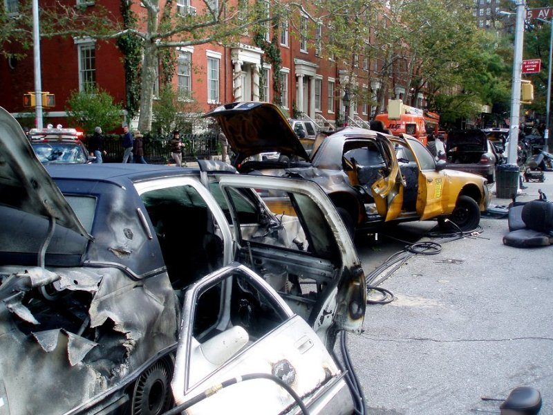 This was Washington Square on October 31, 2006 when the area was being set up for an evening shooting of I am legend. In the background you can see the house Will Smith's character lives in.